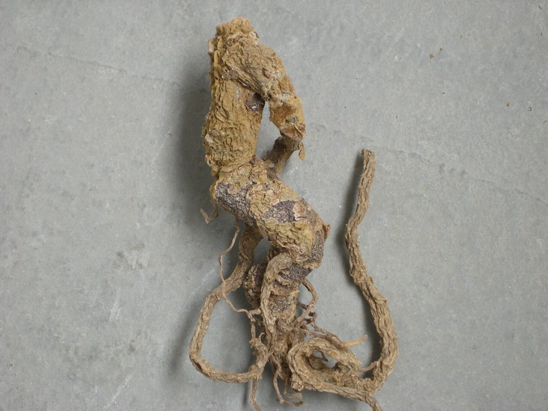 Mandragora's root